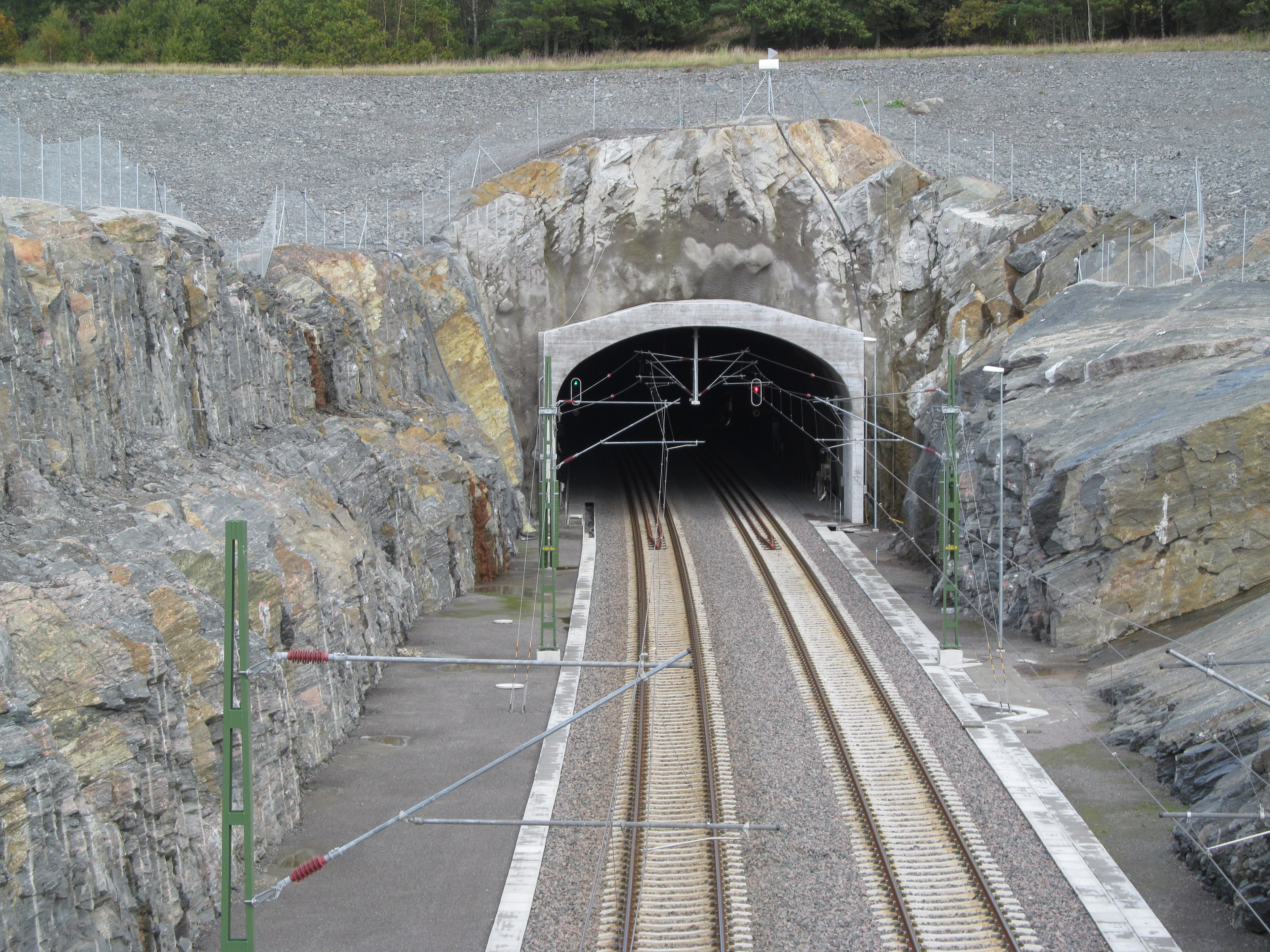 Railway tunnel near Älvängen, Ale Municipality, Sweden